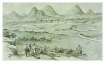 Adwa seen from Axum road (1895)